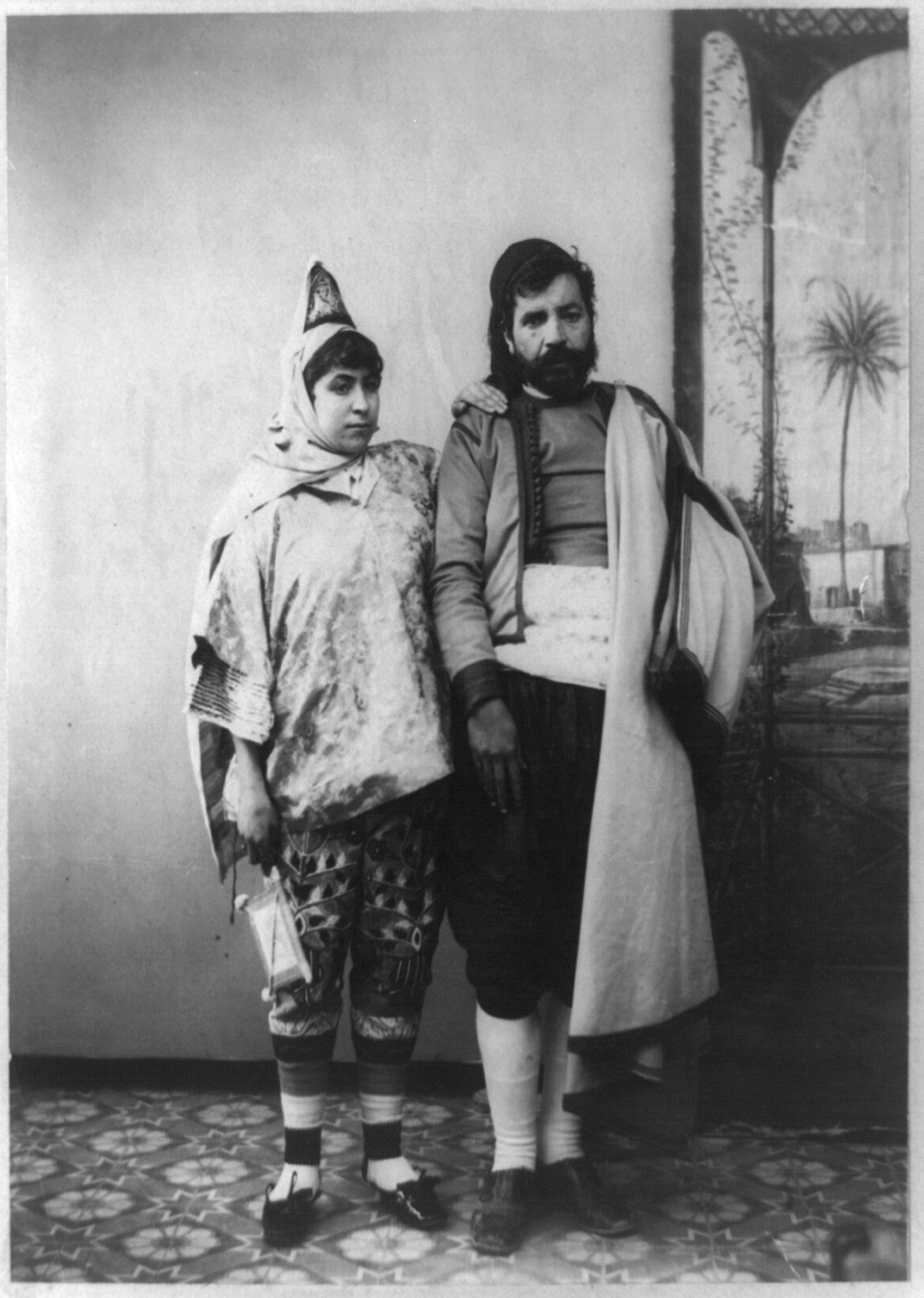 Title: Jewish woman and husband, Tunis, Tunisia Abstract: Both standing, full lgth. Physical description: 1 photographic print. Notes: Title and other information transcribed from caption card and item.; Frank and Frances Carpenter Collection (Library of Congress).; LOT subdivision subject: Tunisia.